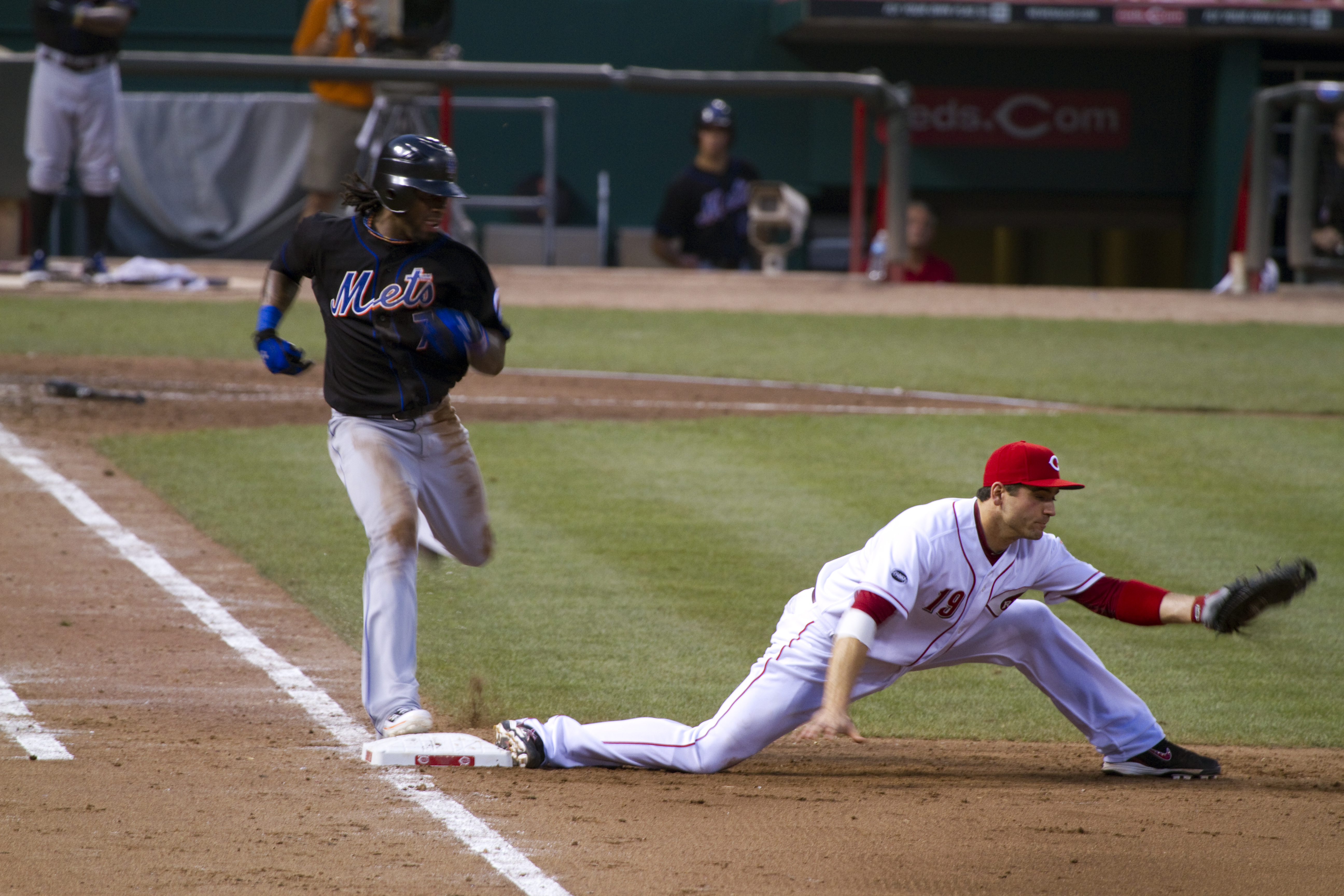 José Reyes (left) and Joey Votto